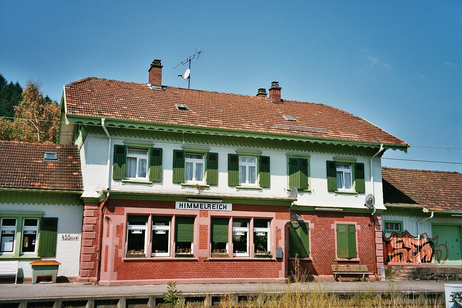 Himmelreich railwaystation in Kirchzarten municipality.